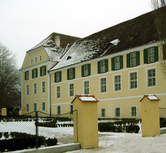 The Batthyány-Castle in Pinkafeld, Burgenland, Austria